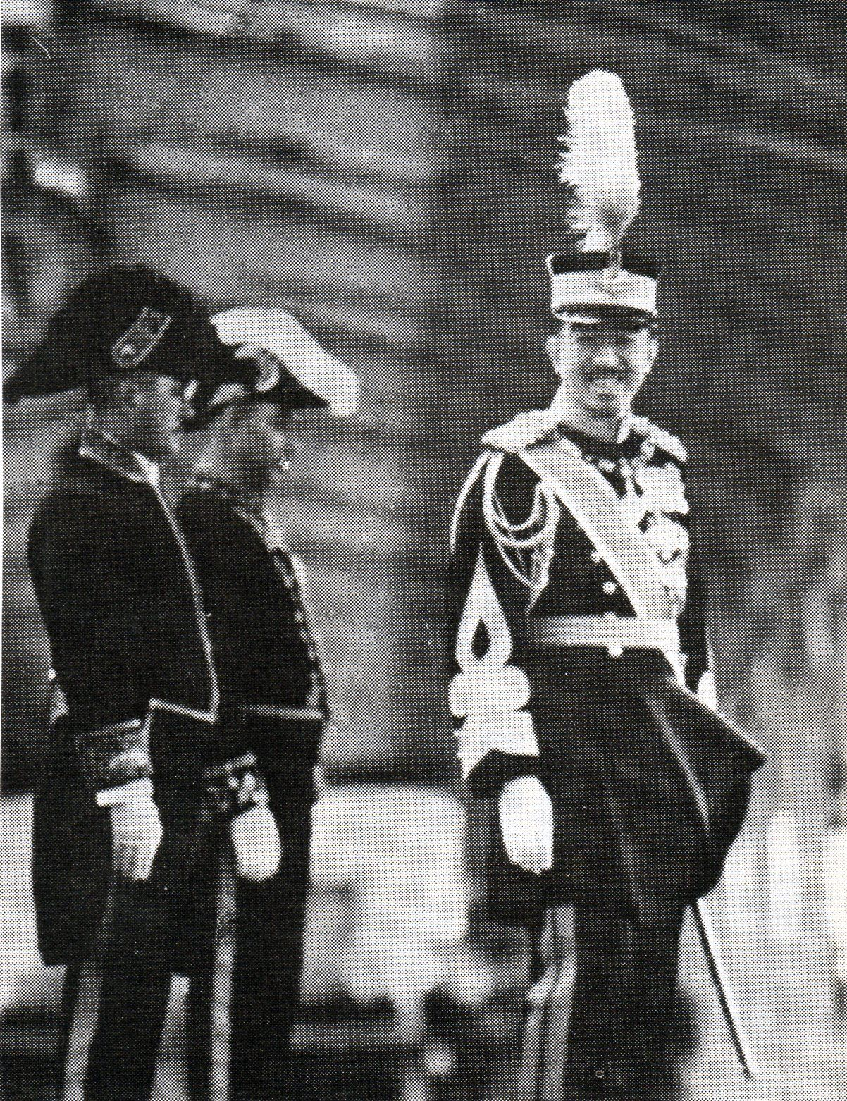 Showa emperor at Tokyo Station.